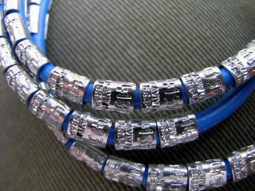 my own work